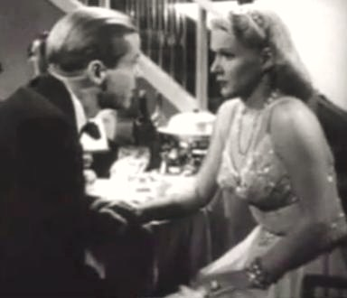 Dan Duryea and June Vincent in Black Angel - trailer (cropped screenshot)